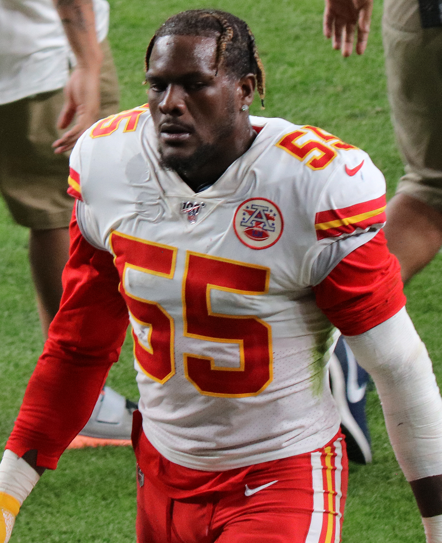 Frank Clark, a National Football League player.